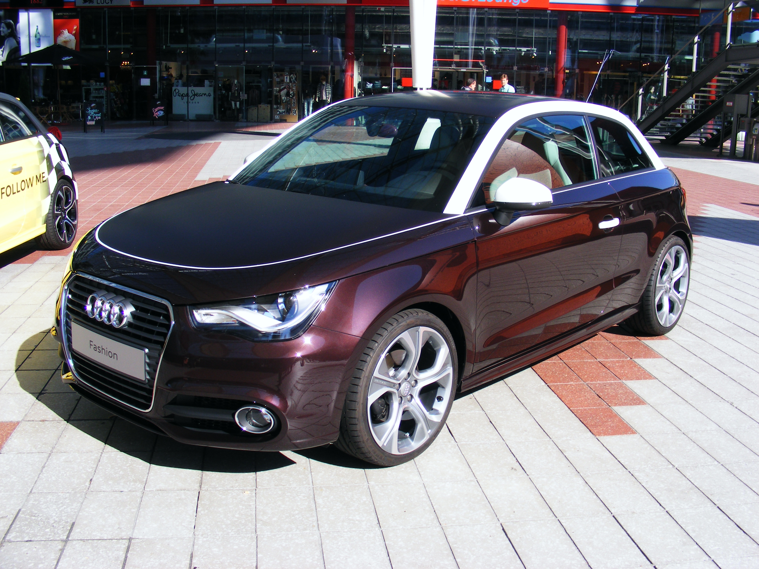 Audi A1 "Fashion" edition